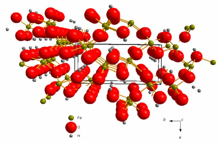 Goethite crystal structure